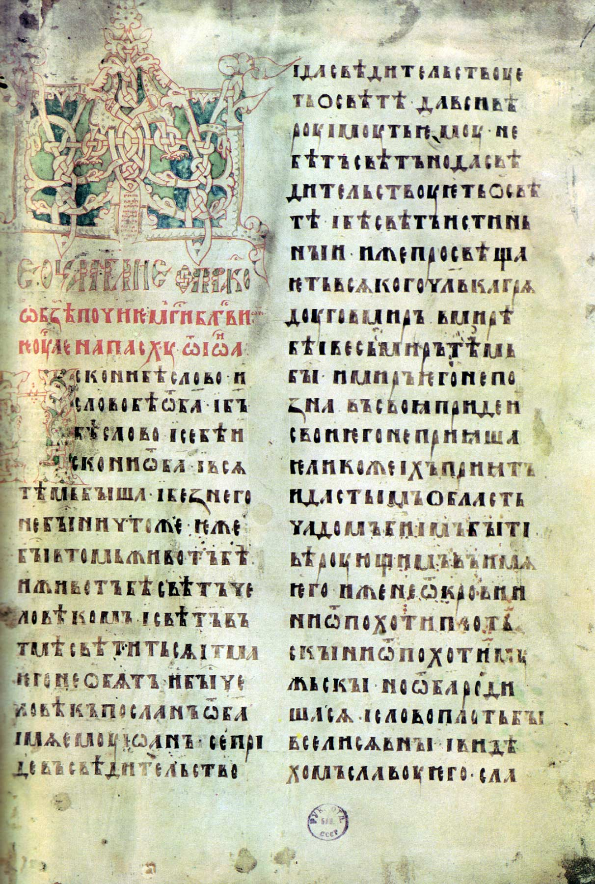 Siysky Gospel.